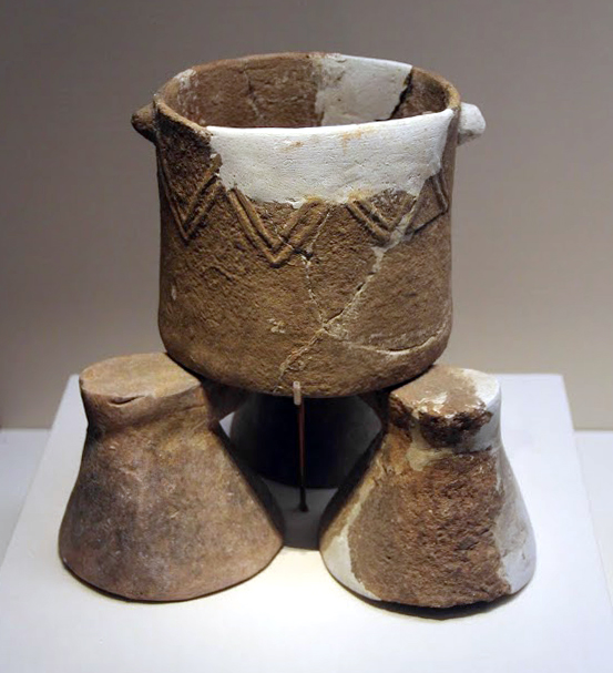 Neolithic pottery cauldron & supporting legs, Cishan Culture (Cishan-Peiligang culture), Hebei, found in 1977. National Museum of China, Beijing